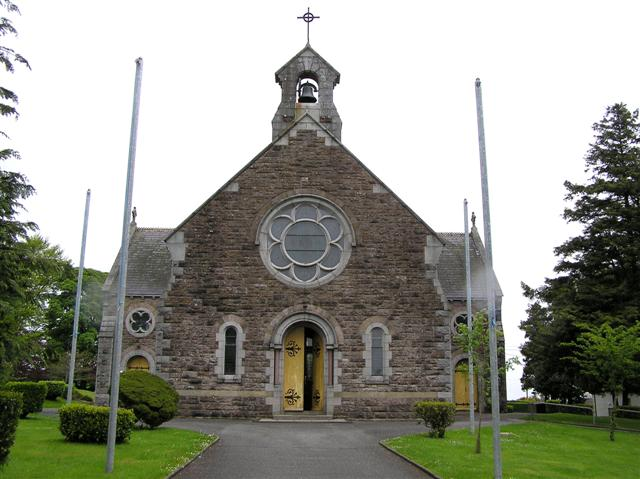 St Mary's RC Church, Pomeroy. It is located at the north-west end of the village